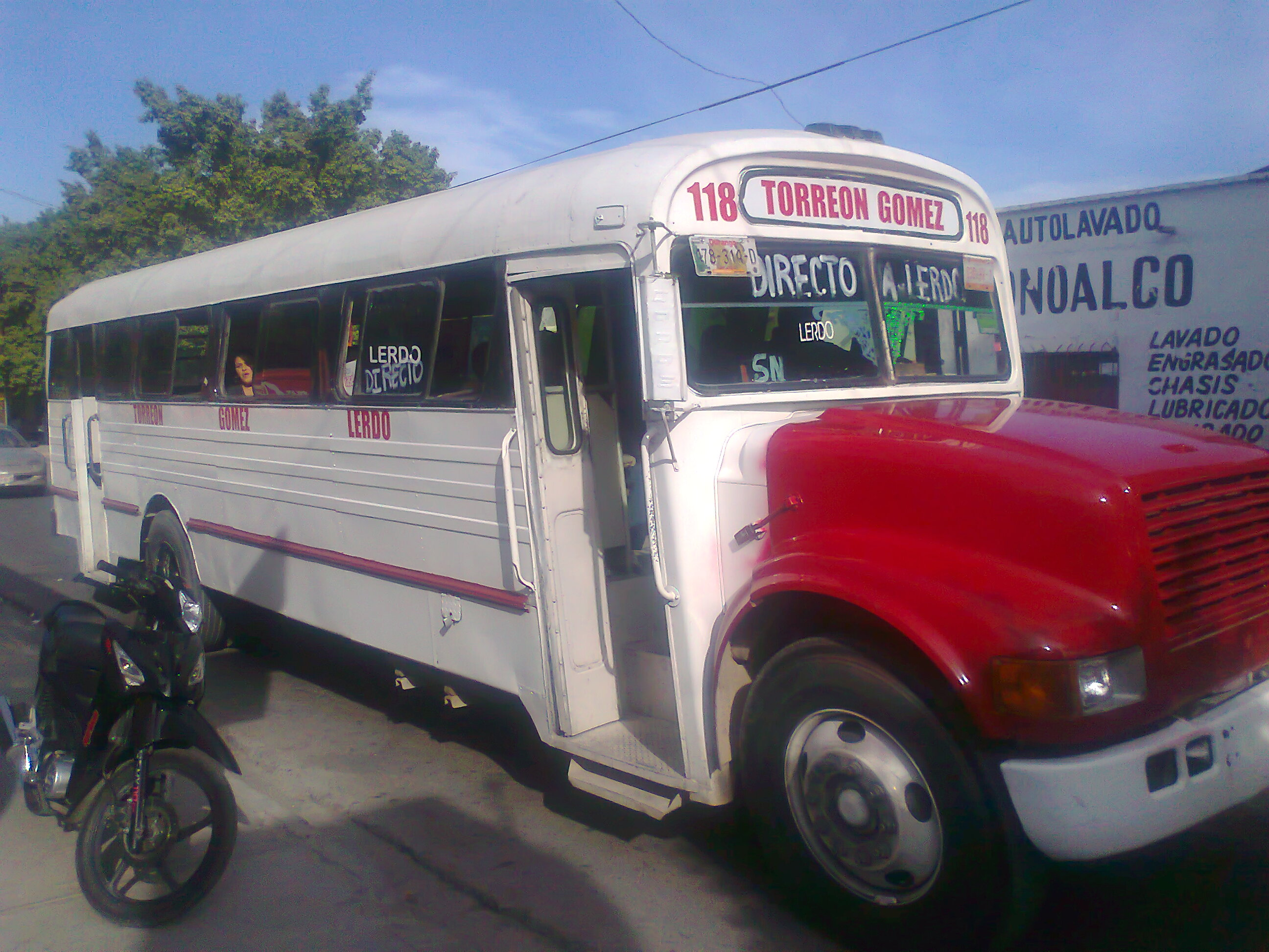 Transportes del Nazas bus under the Directo™ brand.